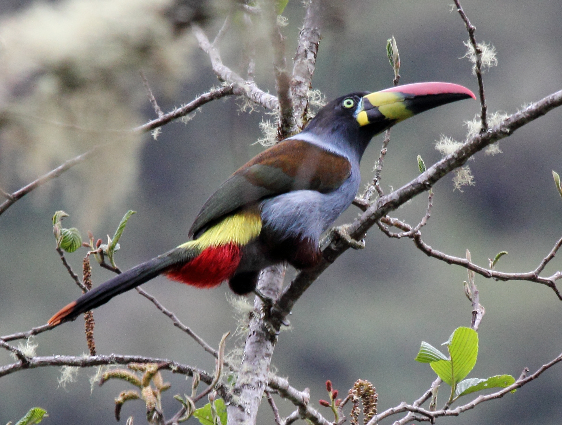 Gray-breasted Mountain-Toucan (Andigena hypoglauca)